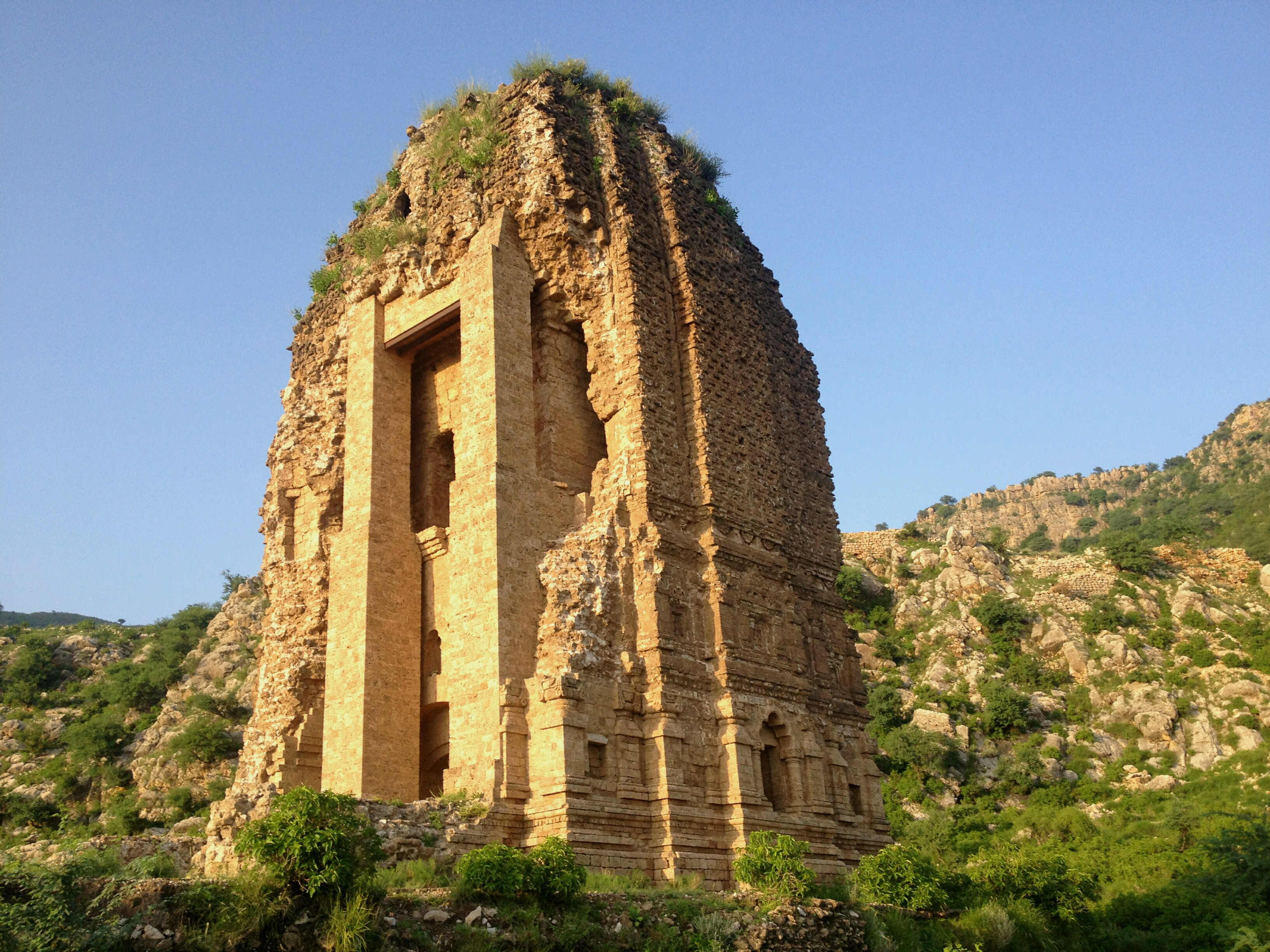 AMB Temples, three temples inside fort This is a photo of a monument in Pakistan identified as the PB-141